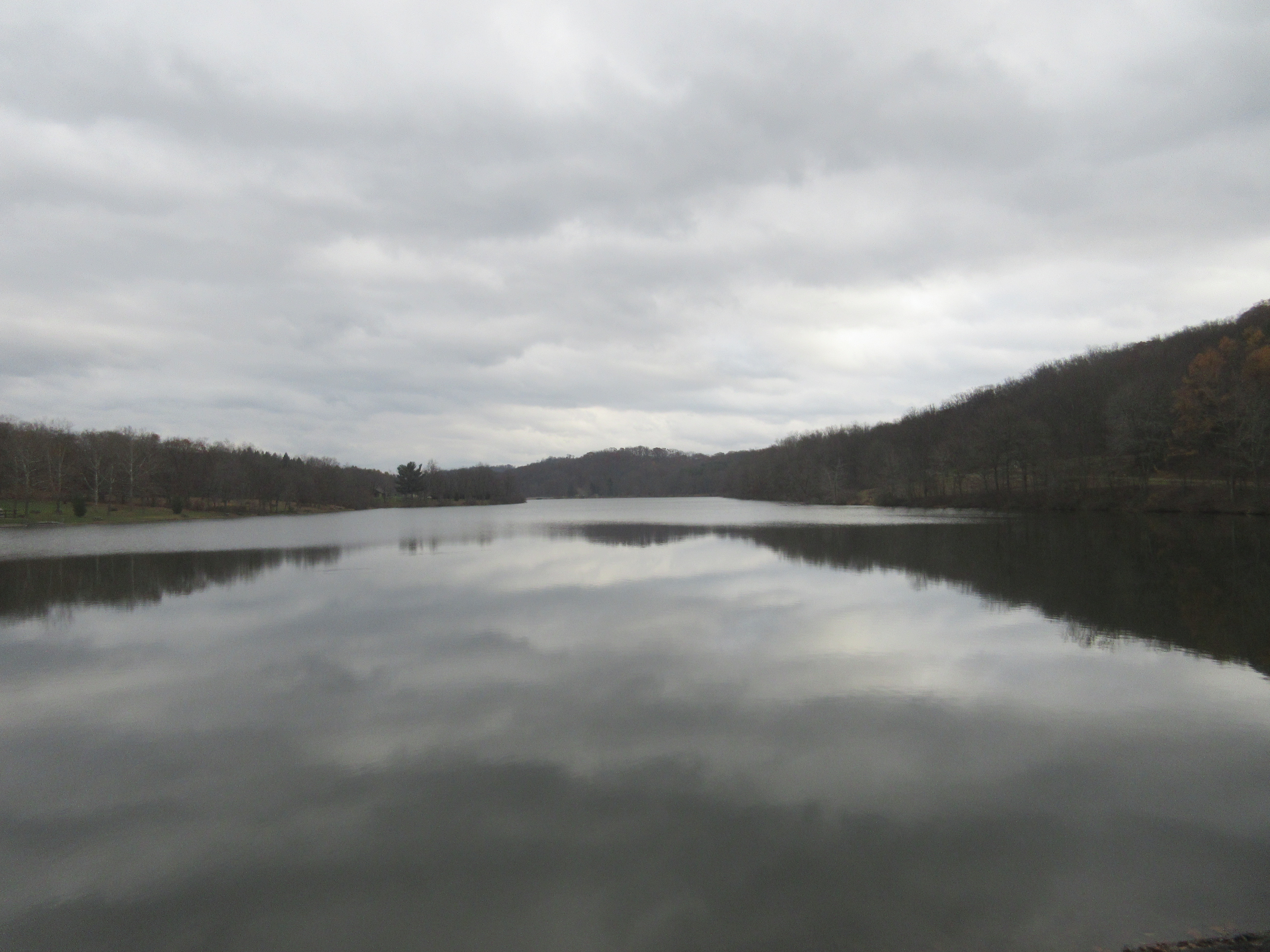 Taken 11-25-2016.